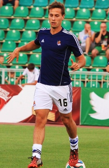 Sergio Canales